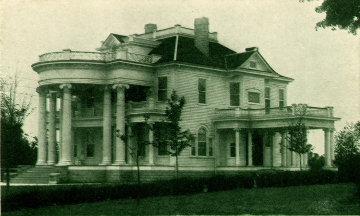 Residence of R.L. Covington in Hazlehurst, Mississippi